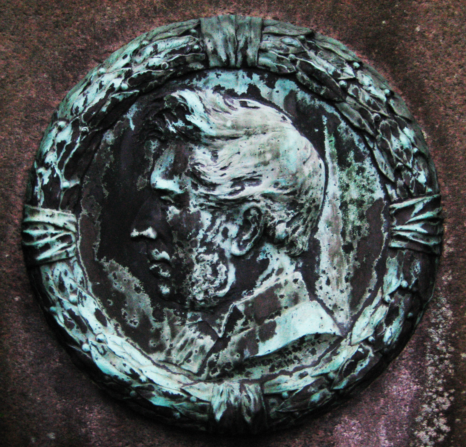 A portrait relief of swedish professor Carl Olbers (1819-1892). Photo taken at Klosterkyrkogården in Lund, Sweden, 090110 by the uploader.